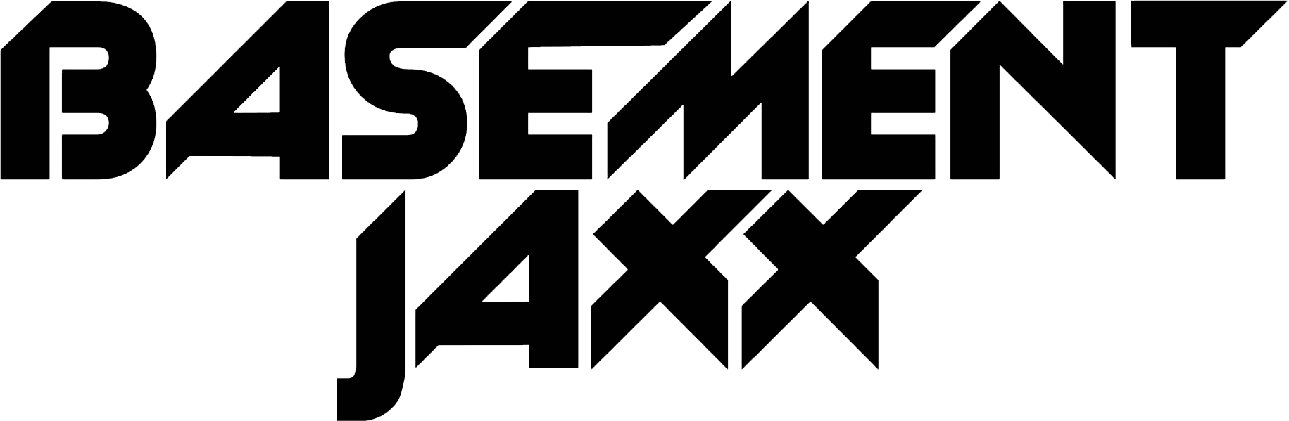 Basement Jaxx Logo